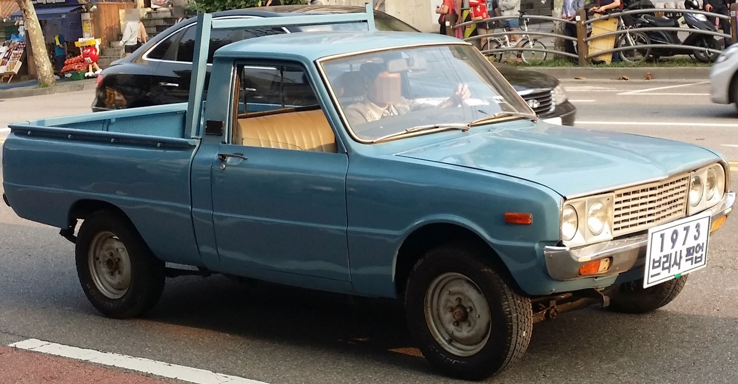 Kia Brisa Pick Up